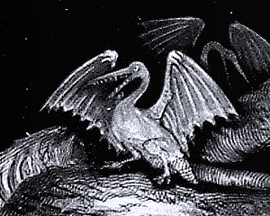 Pterodactylus as envisioned by Thomas Hawkins